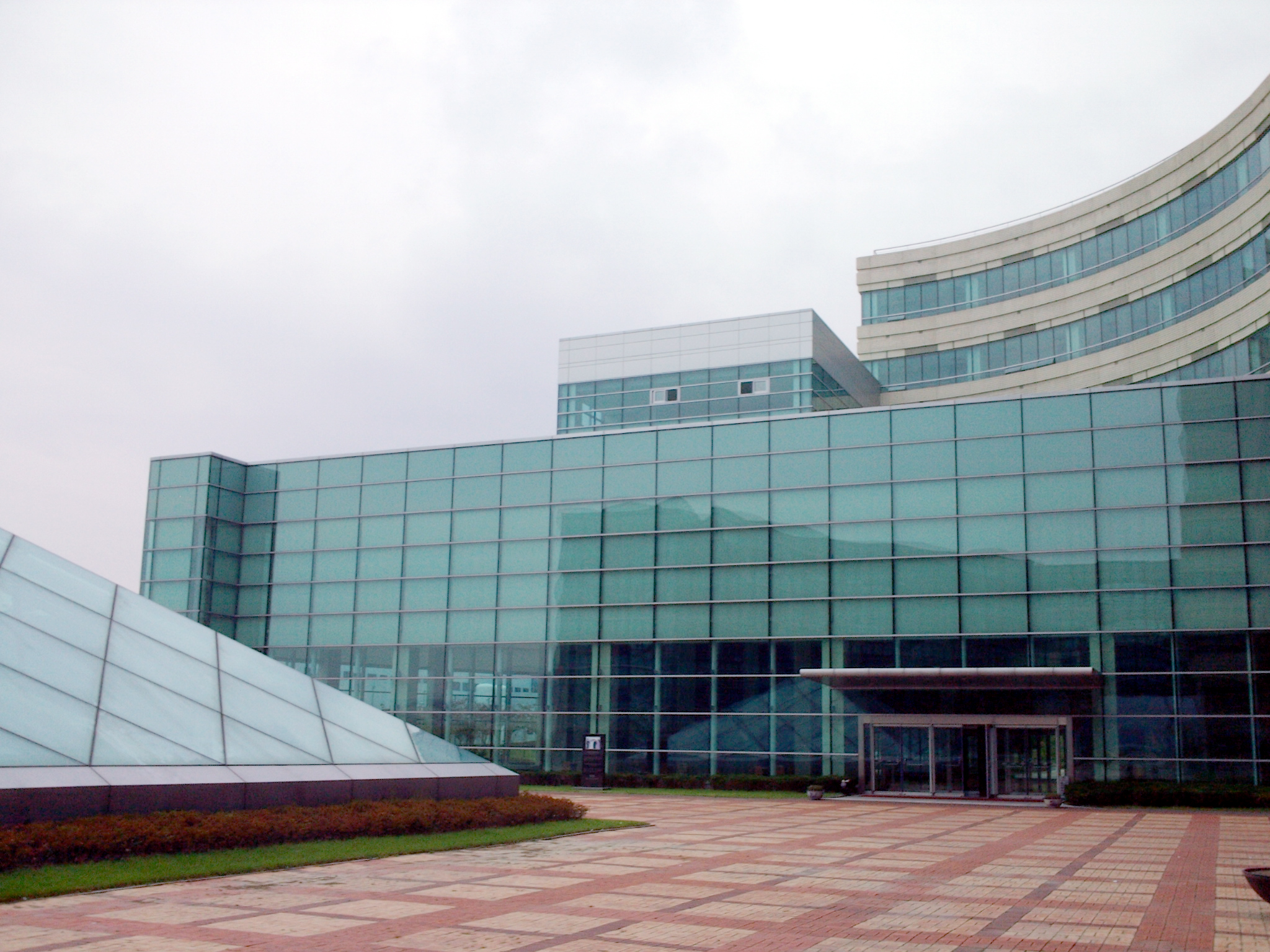 Photograph of the lecture wing at the Information and Communications University in Daejeon, South Korea.